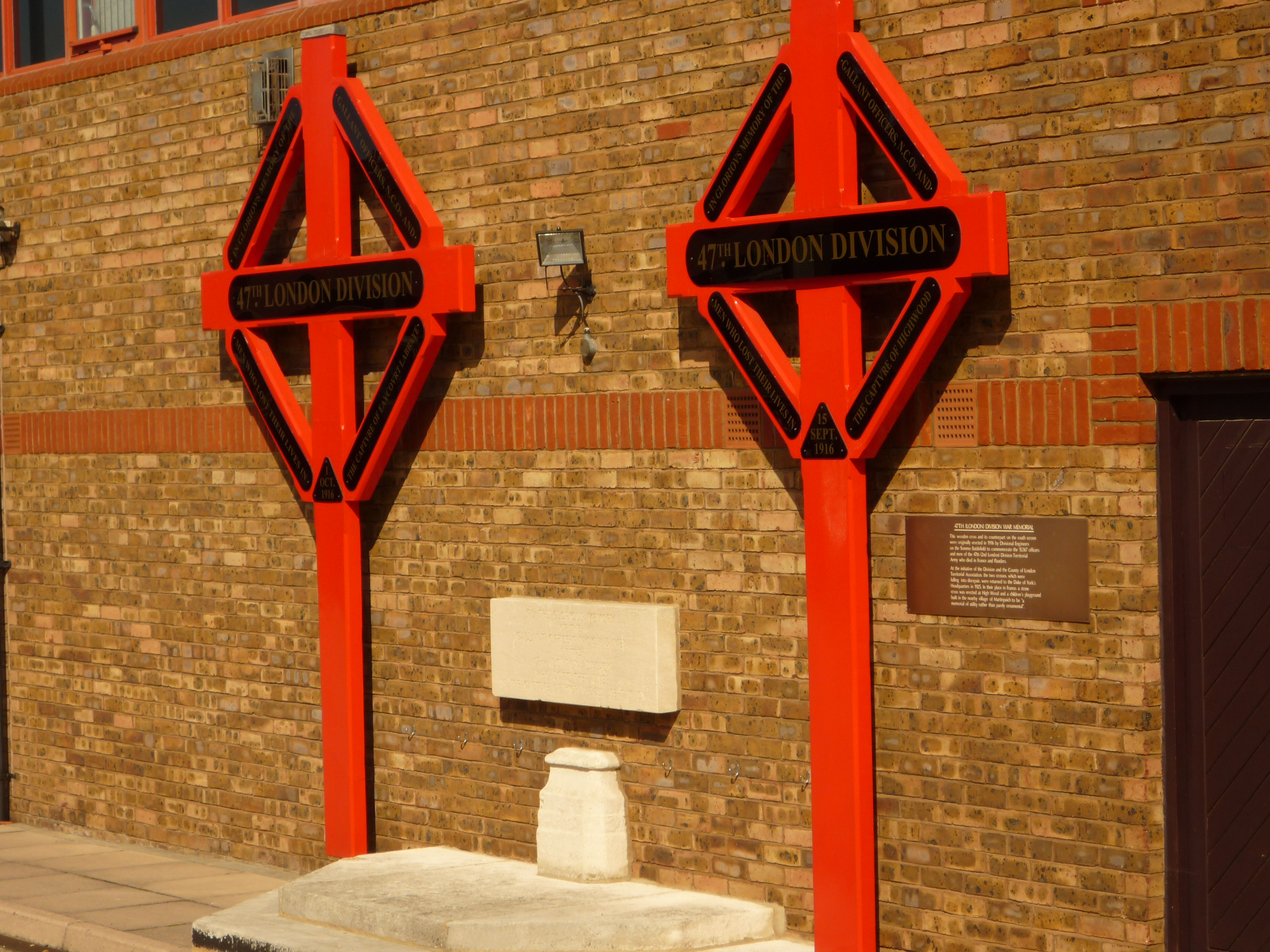 The two wooden memorial crosses erected on the Somme battlefields at High Wood and Eaucourt l'Abbaye by 47 Divisional Engineers in 1916 were falling into disrepair by 1925, when they were replaced in stone. The wooden crosses were preserved at the Duke of York's Headquarters in London (the former divisional HQ) until that building was sold in 2003, and are now restored at Connaught House, the HQ of the London Irish Rifles at Flodden Road, Camberwell.